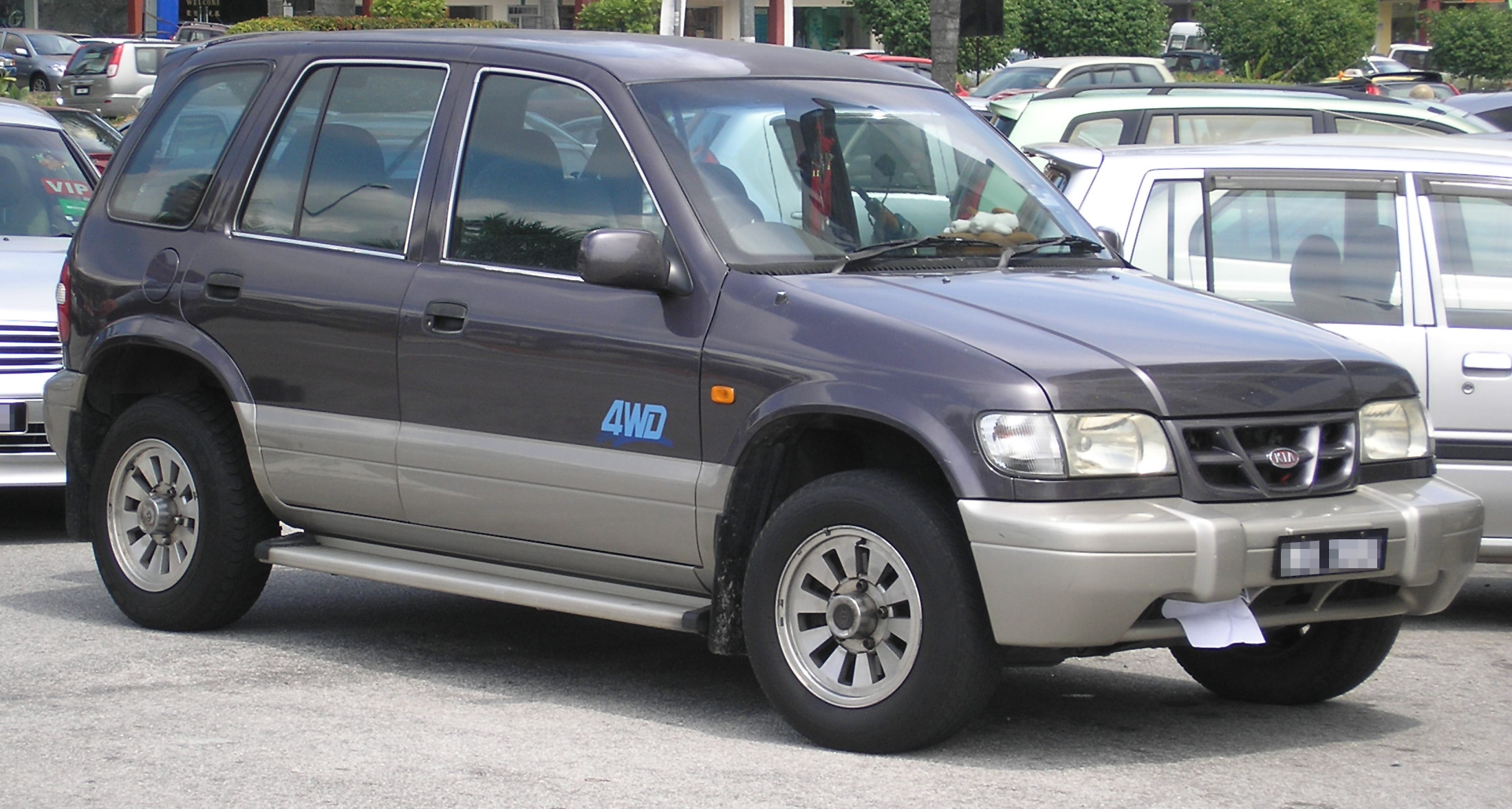 Front-side shot of a first generation Kia Sportage, in Serdang, Selangor, Malaysia.